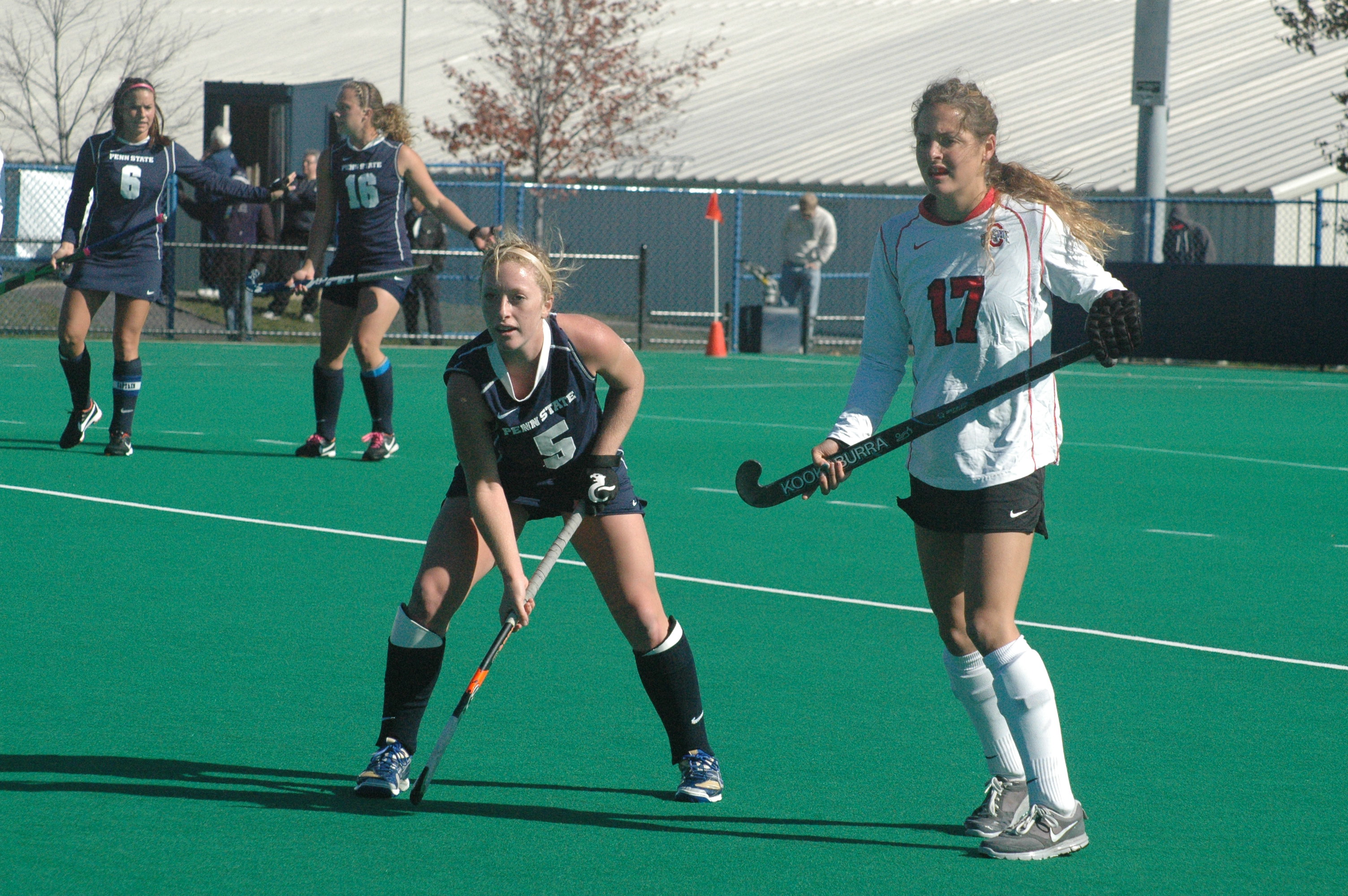 The Ohio State Buckeyes vs. the Penn State Nittany Lions during a 2011 Big Ten Field Hockey Tournament semifinal in University Park, Pennsylvania.